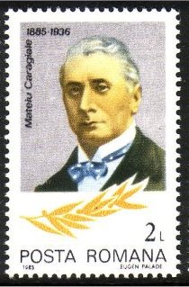 1985 Romanian Post, 2 lei, multicoloured, representing Mateiu Caragiale; Series:Famous personalities; Design: Eugen Palade